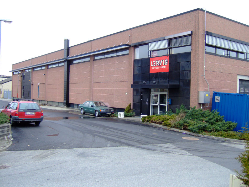 Lervig Produksjonshall, brewery, Norway